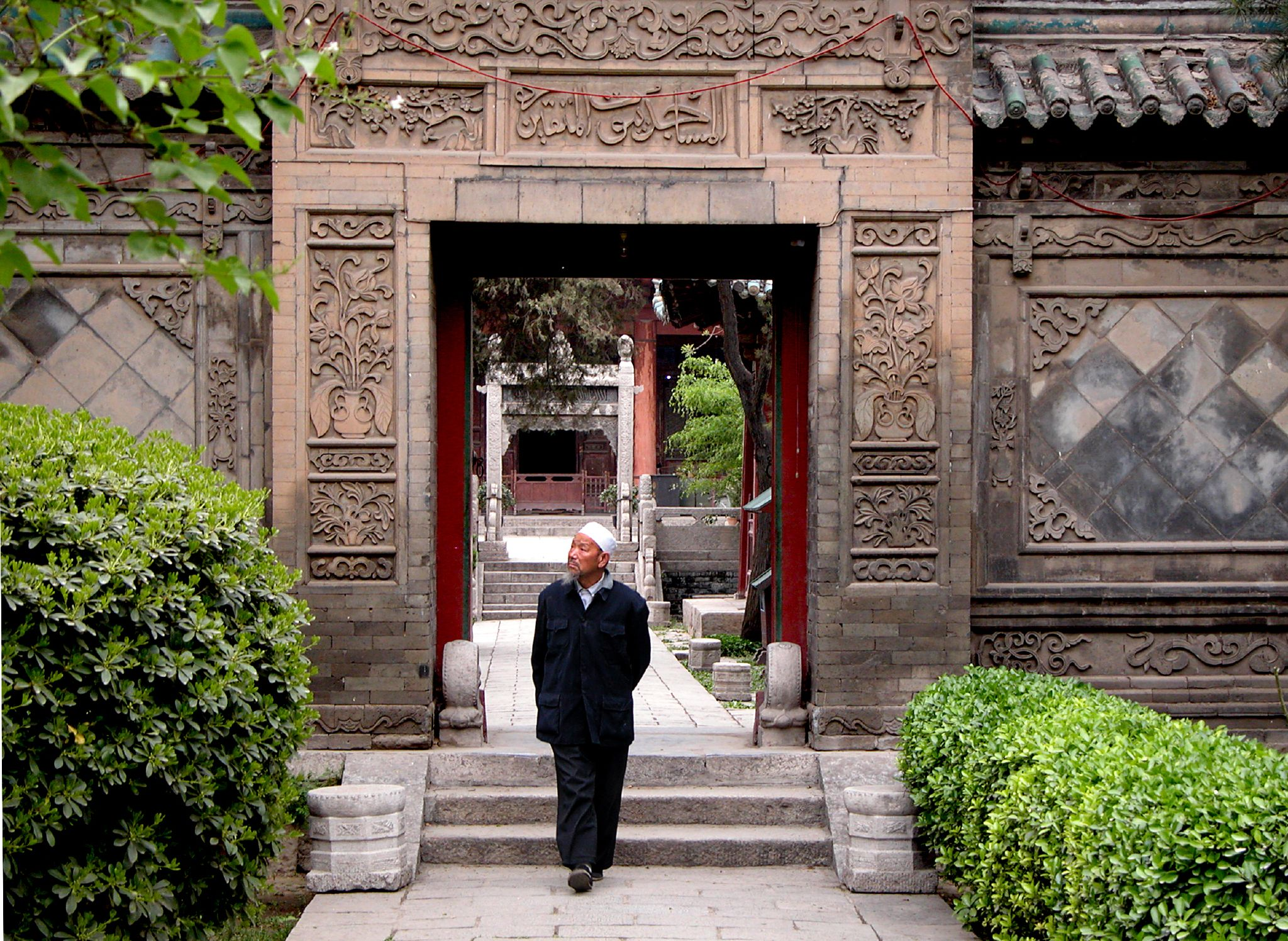 Hui worshipper strolling through the courtyard of Daqingzhen Si.Amongst the Faithful